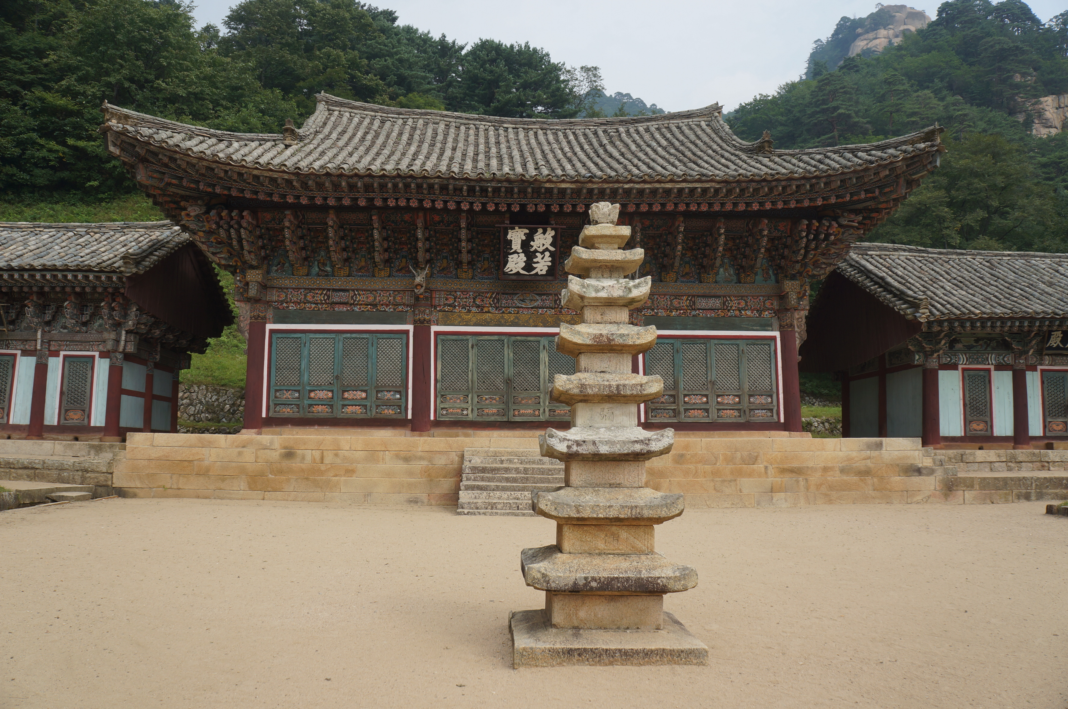 표훈사 내금강산 For more information on this temple, visit